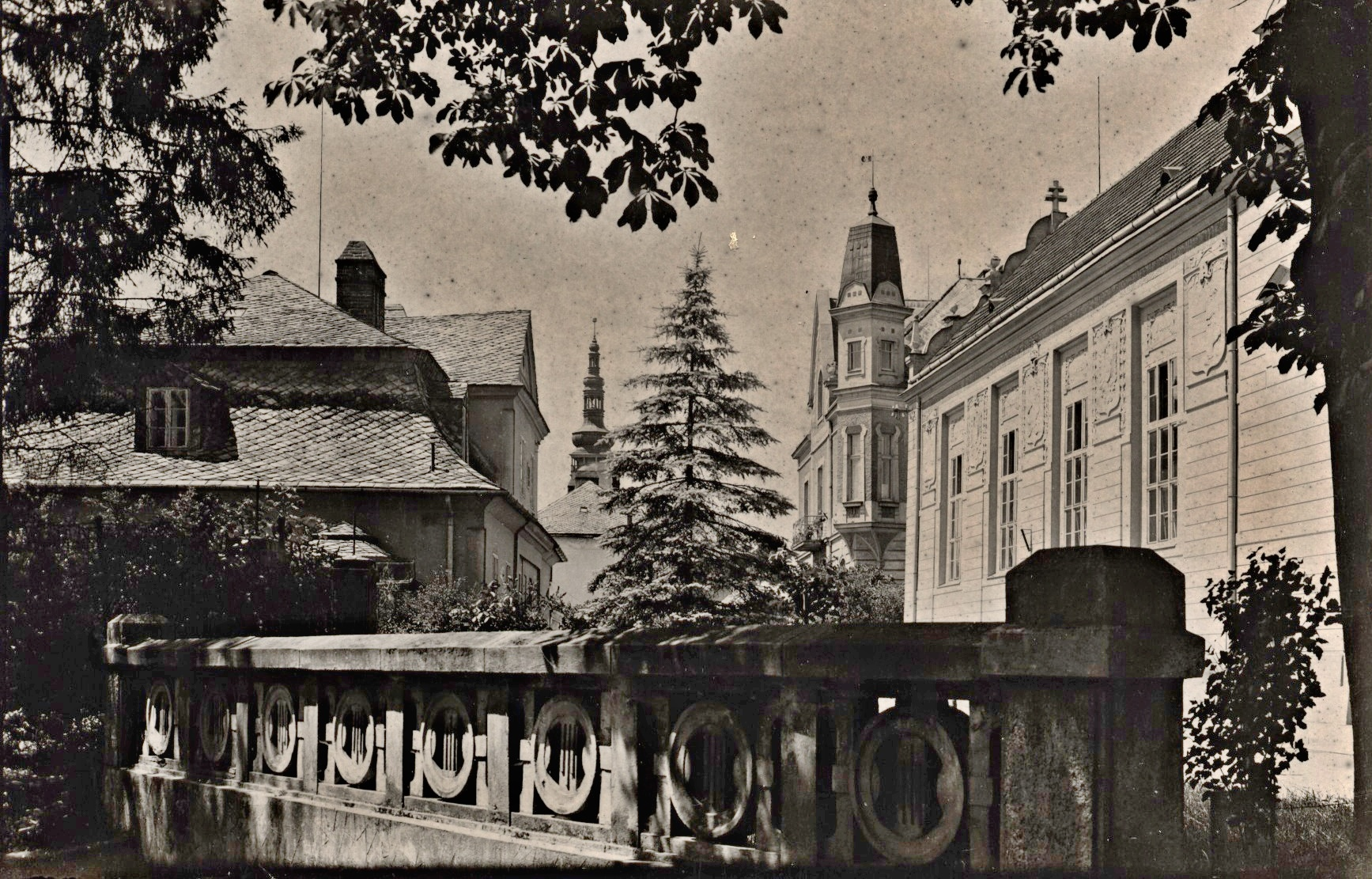 Reinforced concrete bridge over Nečíz in Husova street, Litovel. On the right there is the church of the Czechoslovak Hussite Church and the so called Sochova vila (villa of Vácslav Socha, the first Czech mayor of Litovel) behind it.